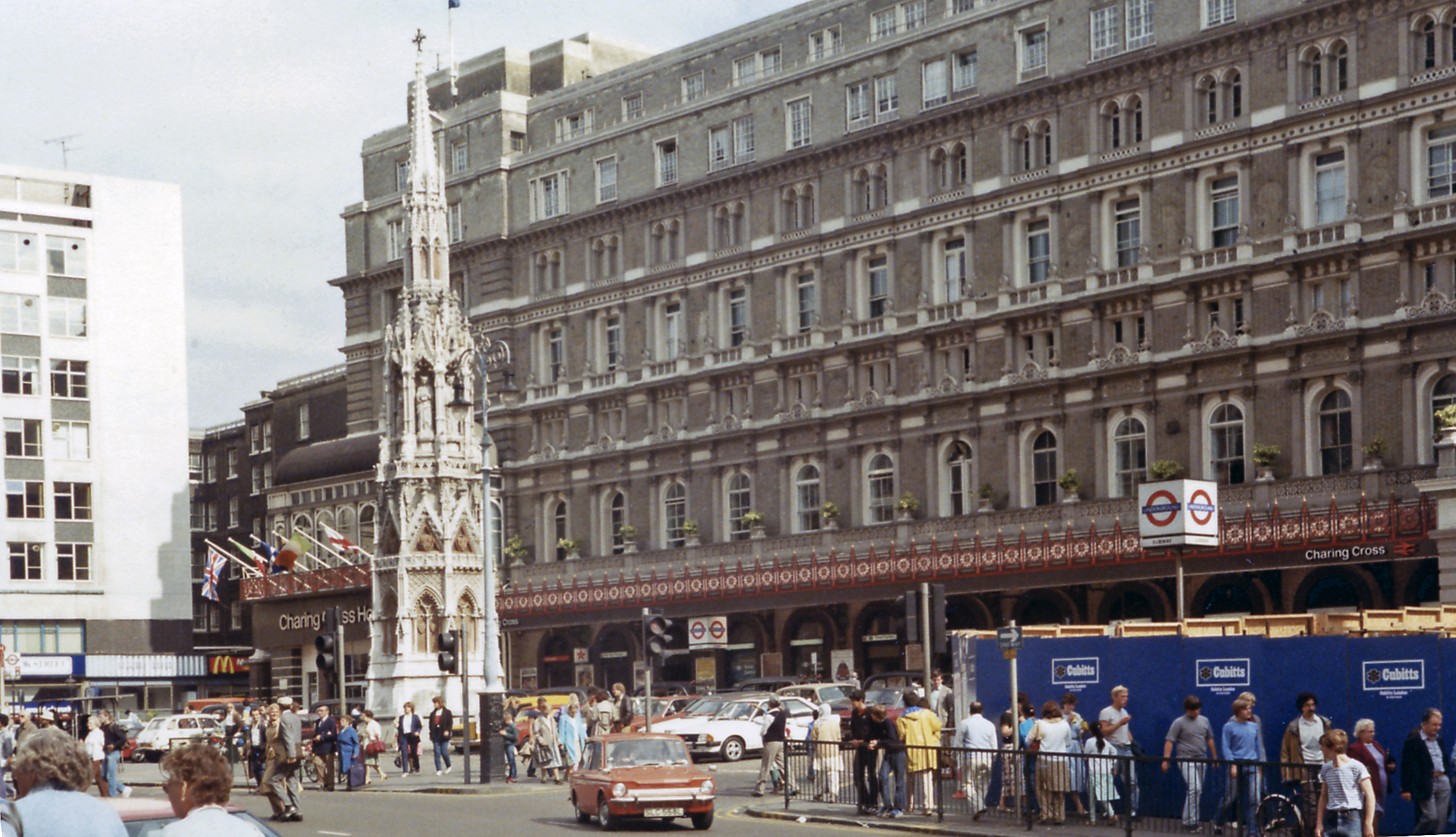 Charing Cross Station entrance and Hotel, 1983. View SE across the Strand. Dominating the scene is the 1865-replica, designed by E.M. Barry, of the 'Eleanoar Cross' famously erected at the order of King Edward I in 1294 in memory of his wife, destroyed by Parliament in 1647. The Station and Hotel have been radically altered since 1990. On the right is the entrance to the Charing Cross Underground Station, which until 1/5/79 had been named 'Strand' on the Northern Line Charing Cross Loop and on that date also the adjacent Bakerloo Line 'Trafalgar Square' station was incorporated together with pedestrian interchange. This 'Charing Cross' station was also the terminus of the new Jubilee Line, but from 20/11/99 was by-passed by the Jubilee Line Extension from Green Park to Stratford.